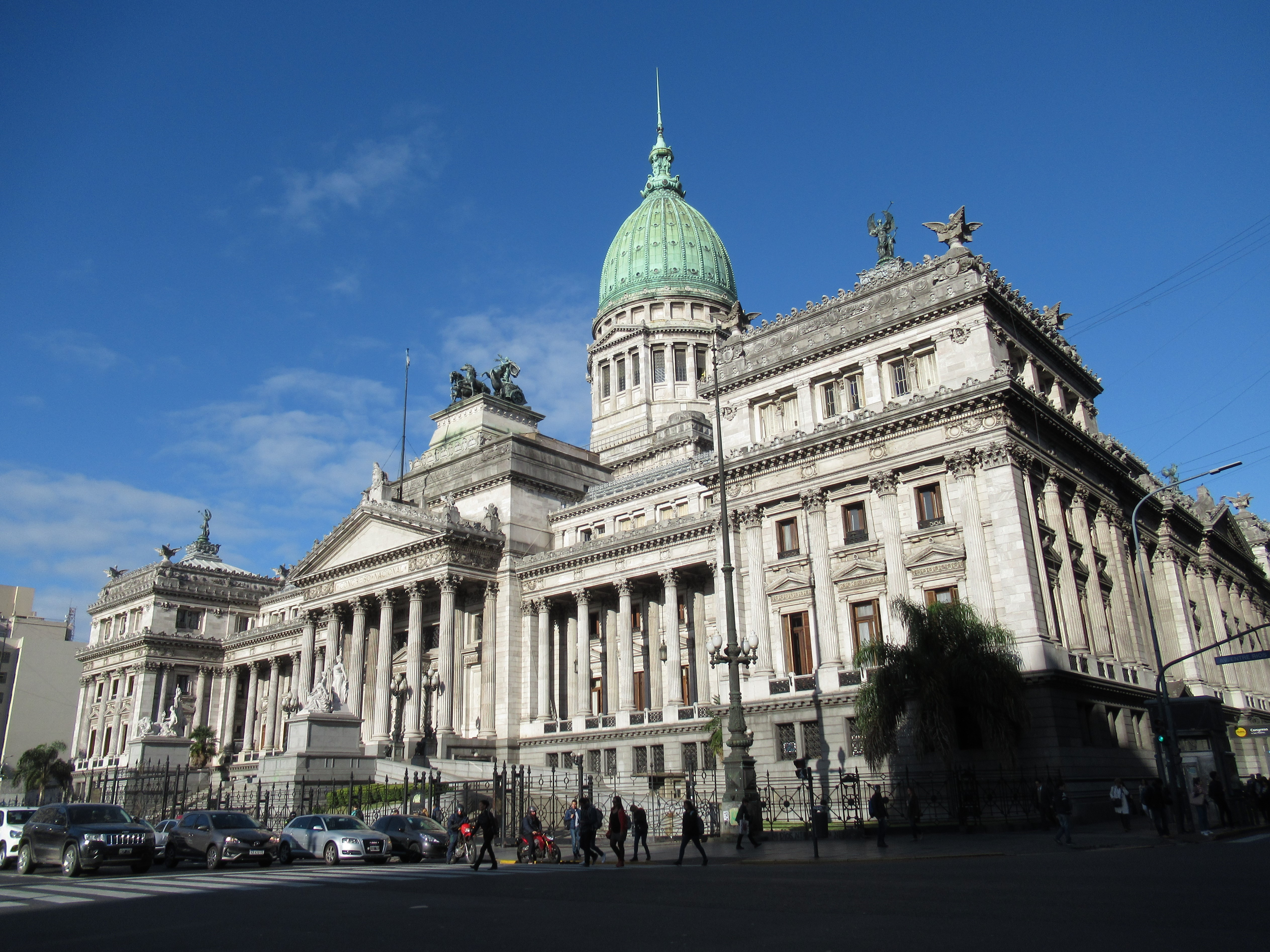 Palacio del Congreso de la Nación Argentina